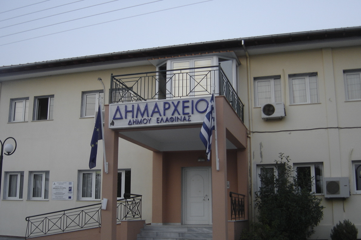 The Dimos Elafinas headquarters, in Palaio Keramidi.